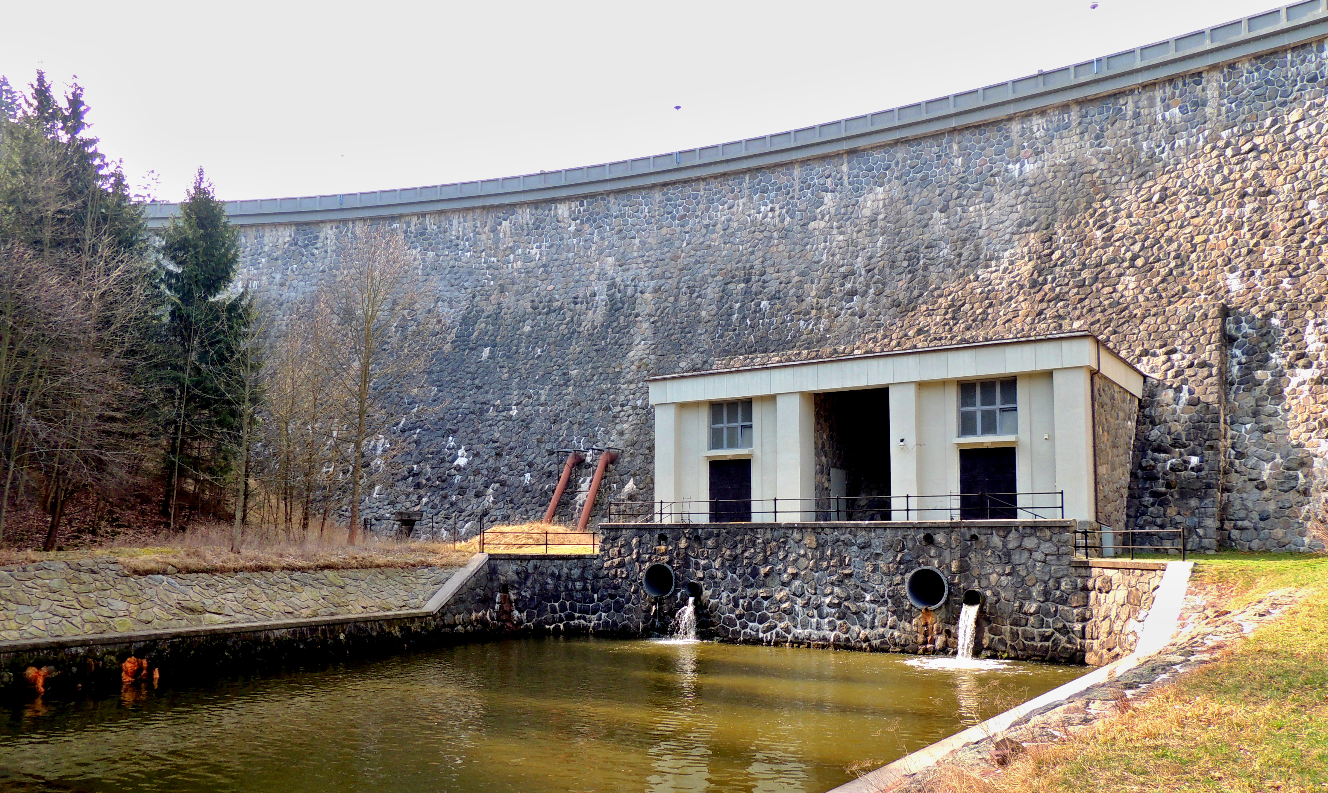 Seč dam, air face. The water reservoir has four outlets, the engine room is in the building below the dike. Pipes with a diameter of 2 x 1.5 m and 2 x 0.8 m. The radius of the arch of the dam is 150 m. The Elbe River Basin, a state enterprise, also organizes excursions on the water works. Photo location: Czech Republic, Pardubice Region, town Seč, Seč Dam, "Kameničská" highlands.